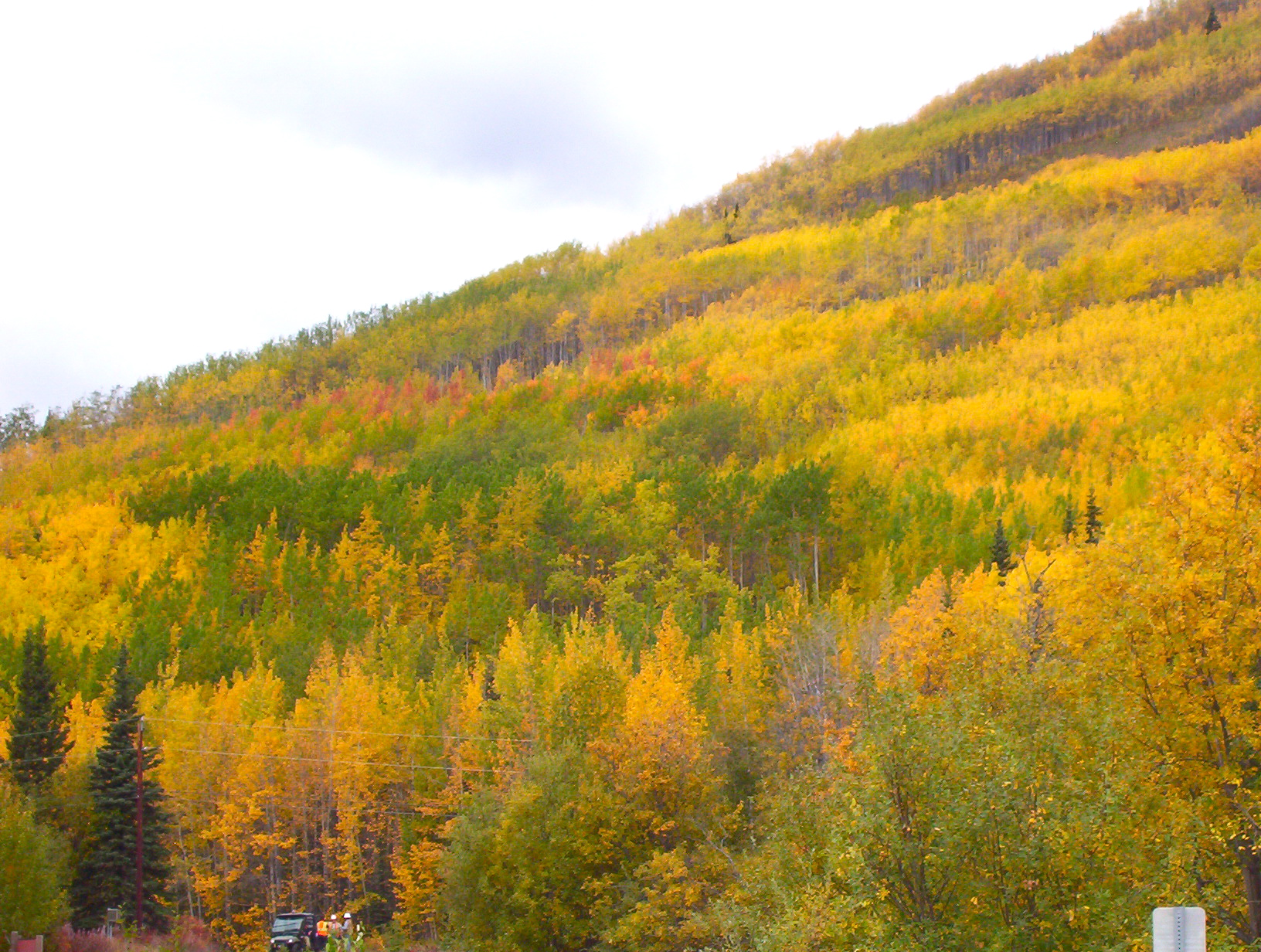 mountainside covered in clonal colonies of quaking aspen, Matanuska Valley, Alaska. Note the people and vehicles at lower left for scale.